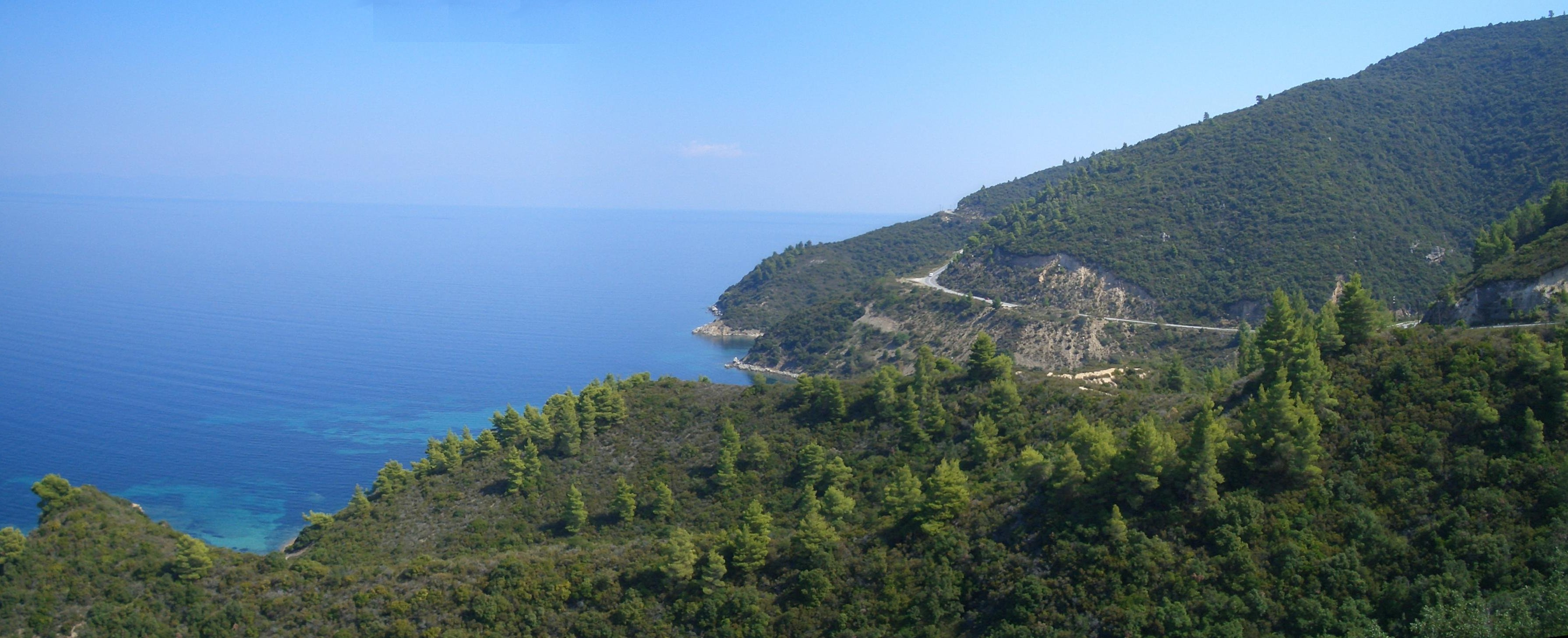 Coastline at Vourvourou, Sithonia